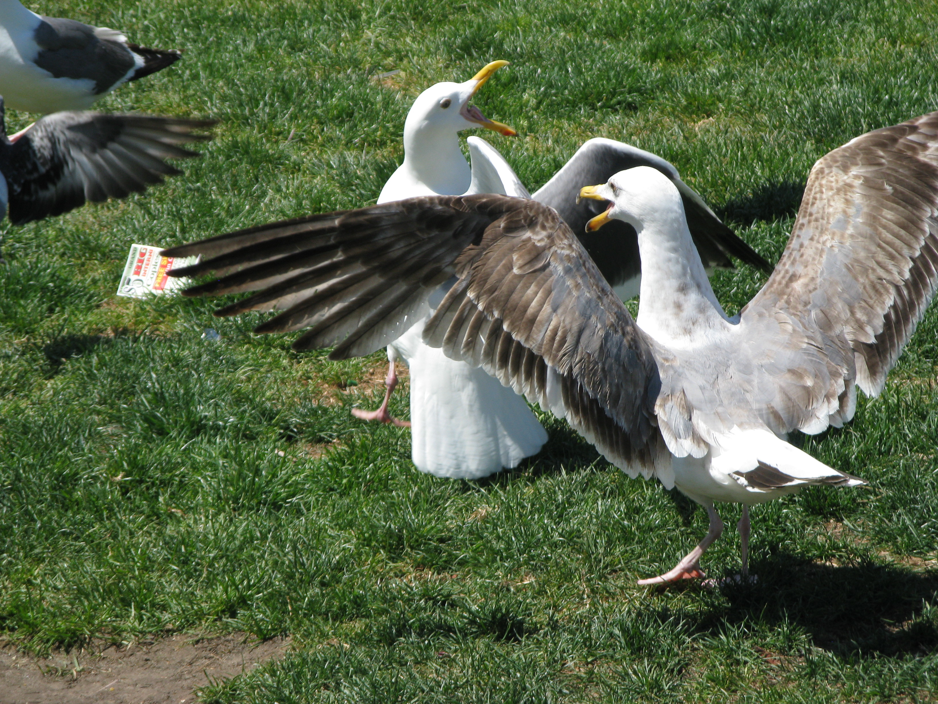 Birds of San Francisco near City Hall.